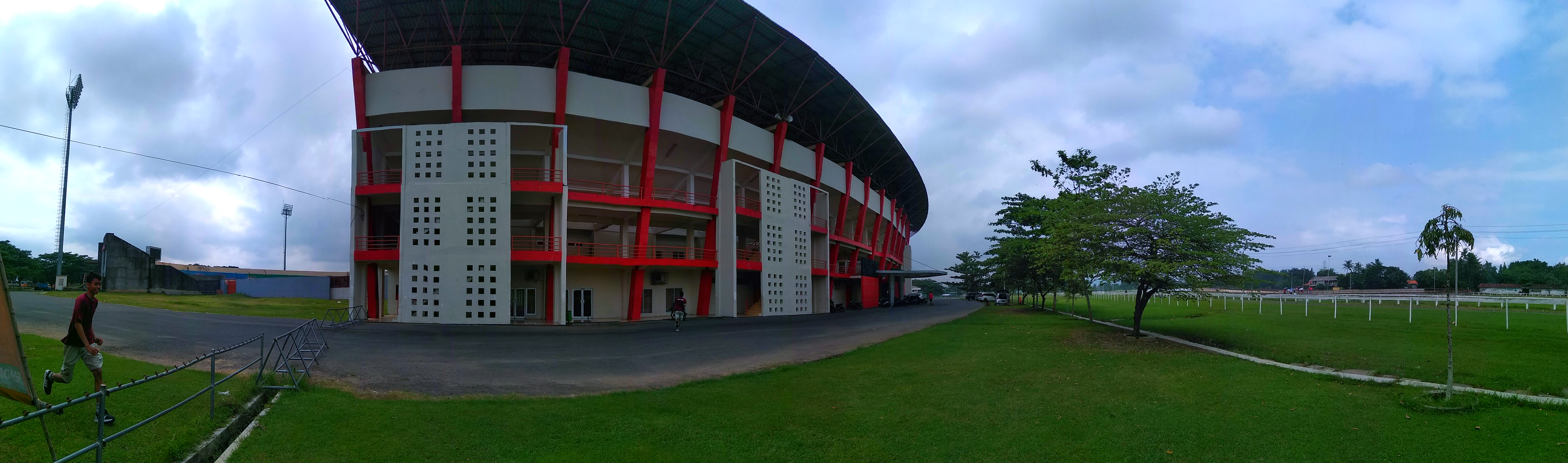 thats my stadion sultan agung